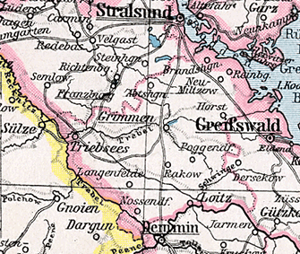 Detail from a map of Pomerania.